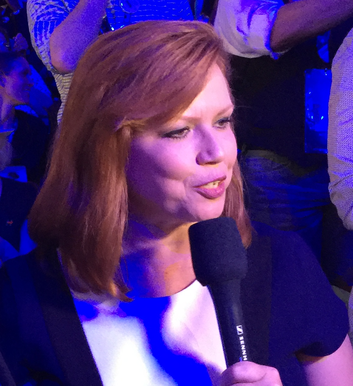 American journalist Kelly O'Donnell of NBC interviews Delaware Senator Chris Coons at the Democratic National Convention